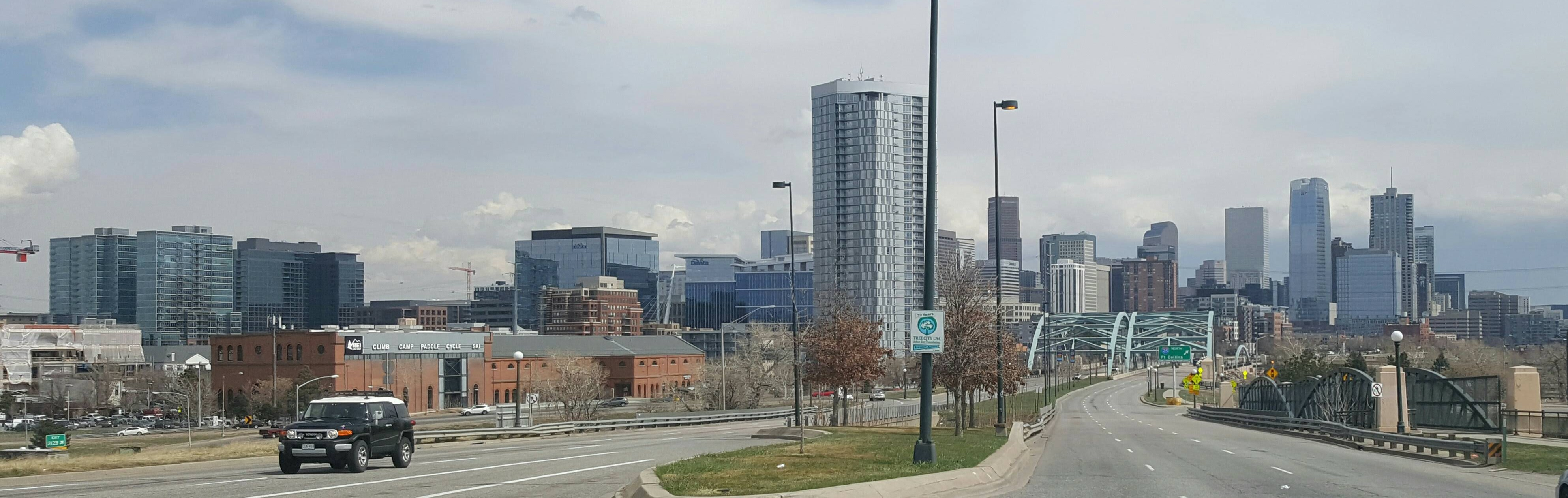 Denver skyline from Speer Blvd near I-25, April 2019